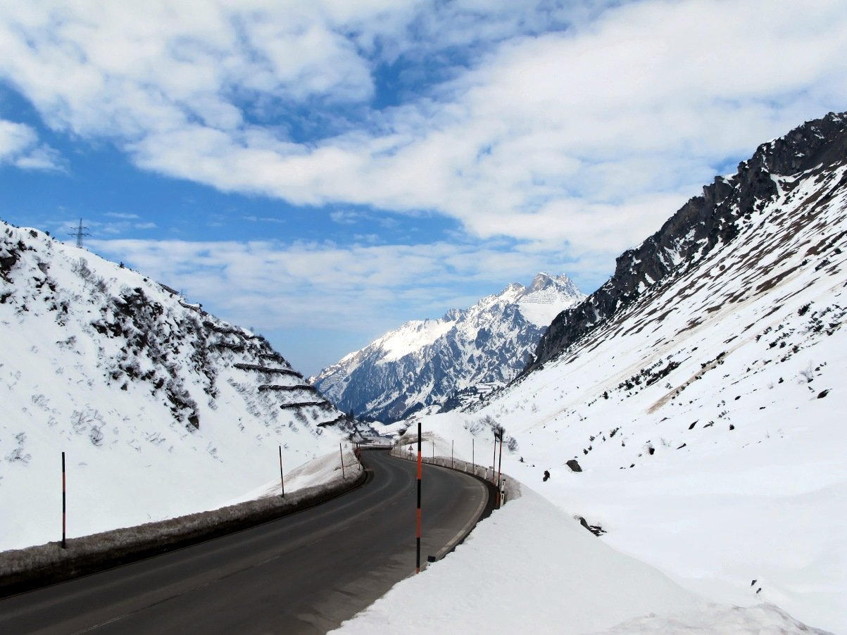 Village "Stuben am Arlberg" , Street above the Village